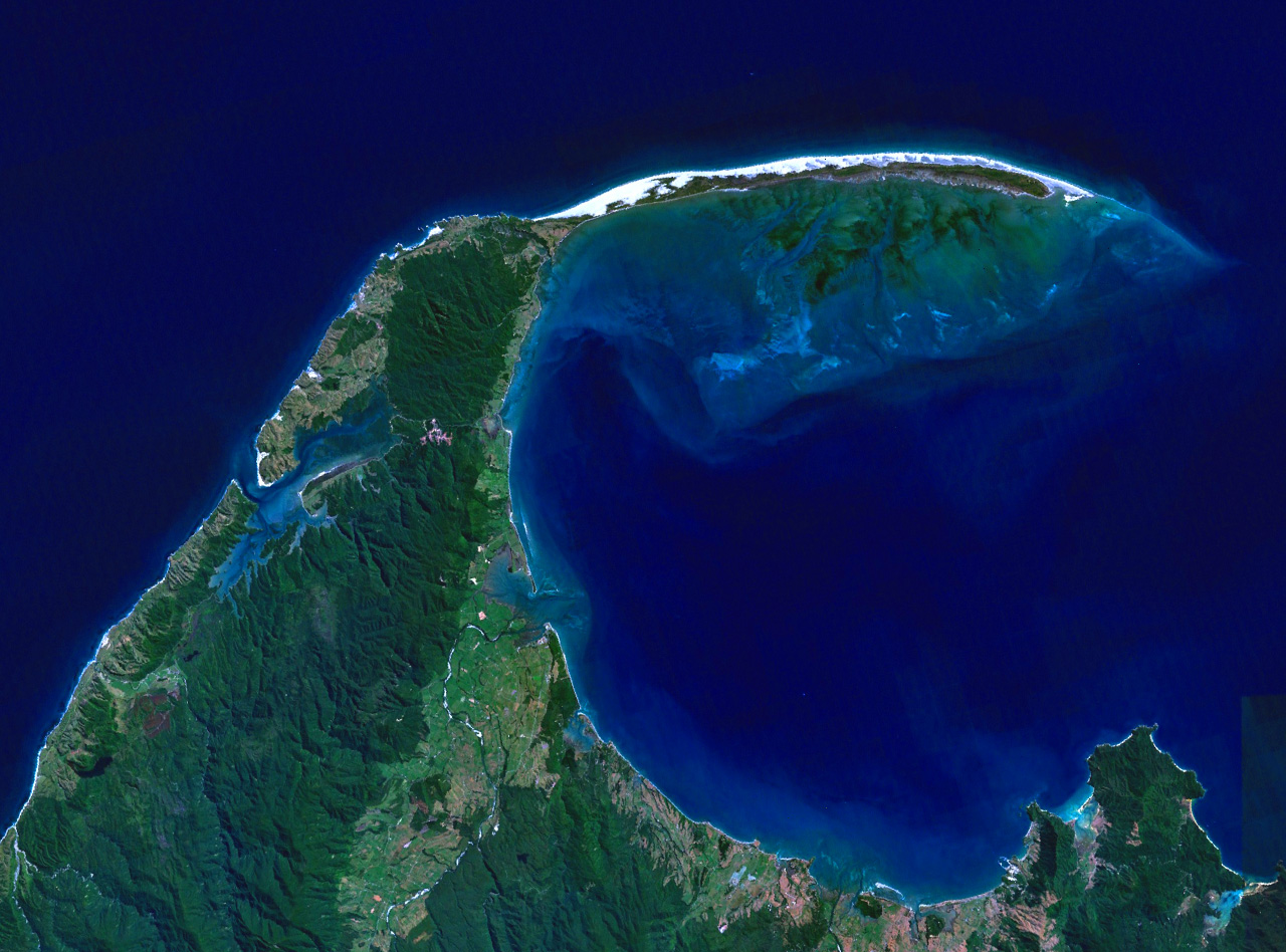 Farewell Spit in New Zealand. - This is a composite Landsat false-colour satellite montage made with NASA World Wind.